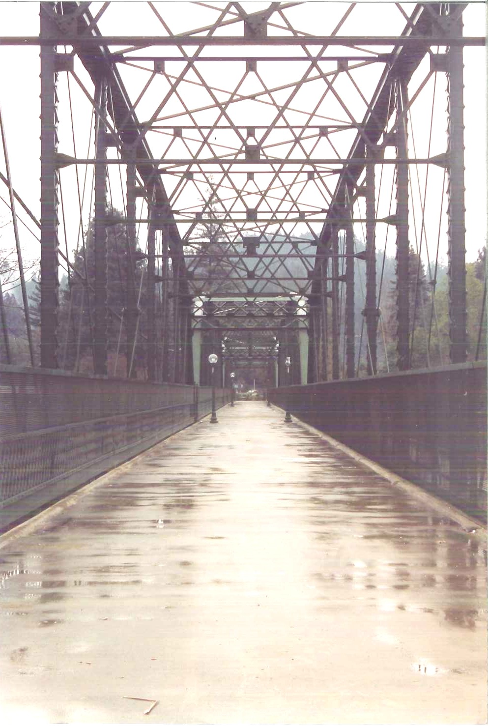 This is the Russian River Bridge pics taken by Caryn Munsterman of Guerneville freeware